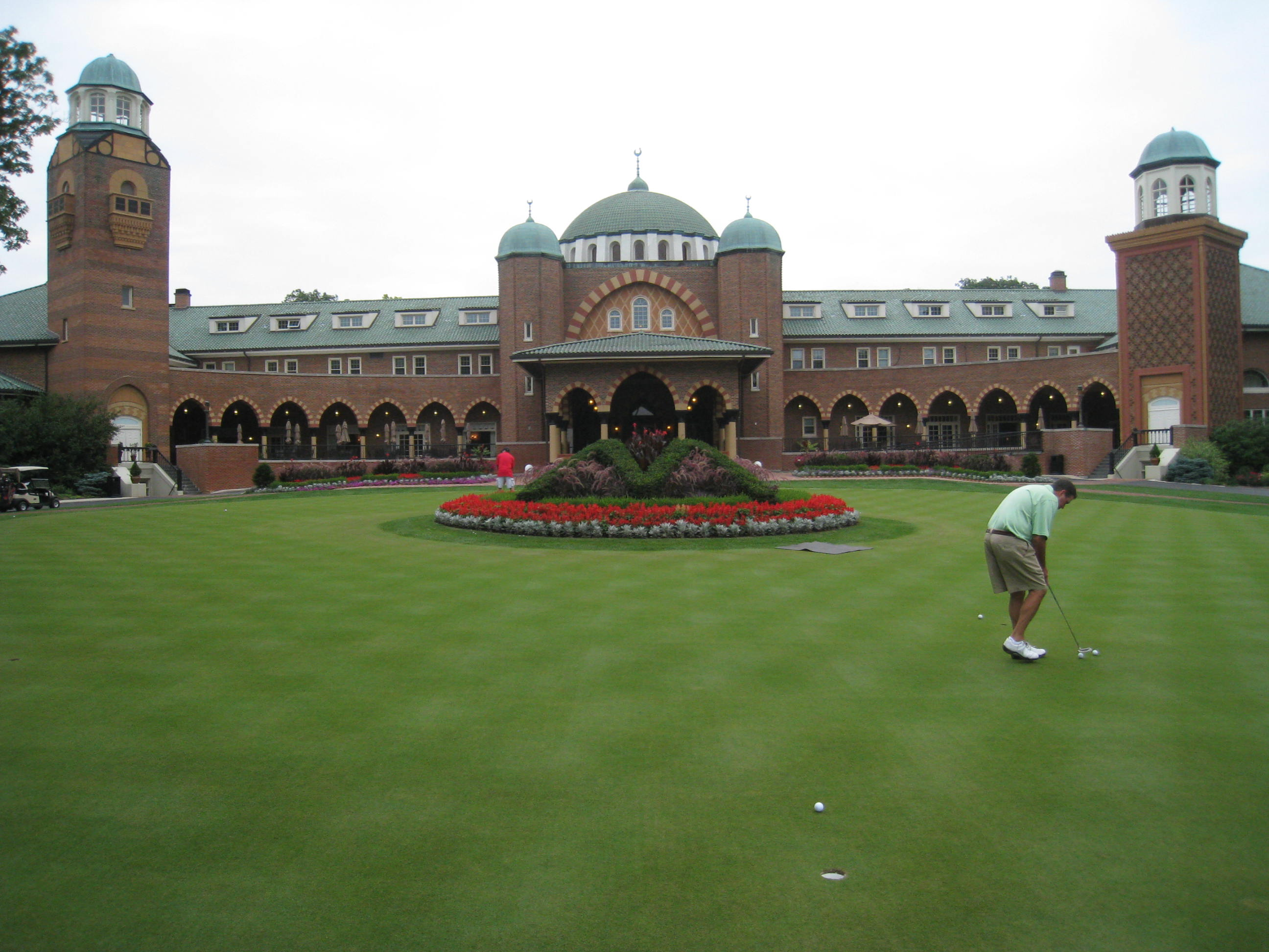 The putting green directly in front of the clubhouse. My review of Medinah Country Club , including a tour of the clubhouse.